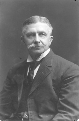 Bernard Fernow Title: Bernhard Eduard Fernow Date: [ca. 1913] Copyright: Public Domain Notes: Fernow founded not only the Faculty of Forestry at the University of Toronto in 1907, but also the Cornell Forestry School. He retired from the position of Dean, Faculty of Forestry, in 1919 and died in 1923. Publication Note: "Torontonensis." 1913, p. 180 "Illustrated Canadian Forestry Magazine." November 1922, p. 1138. "Varsity." February 7, 1923 Source: University of Toronto Archives